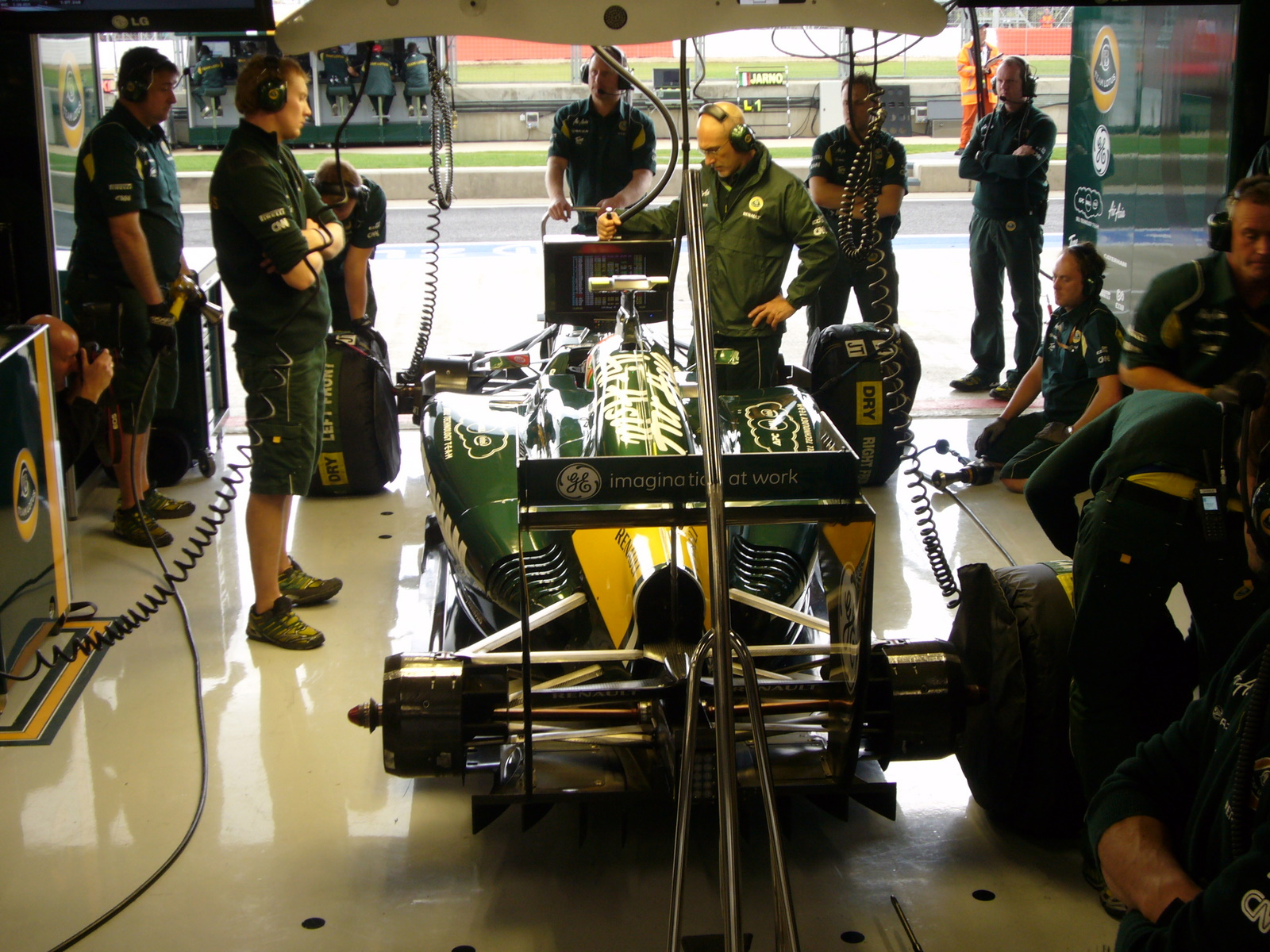 Mechanics make adjustments to the Team Lotus car while our customers watch.